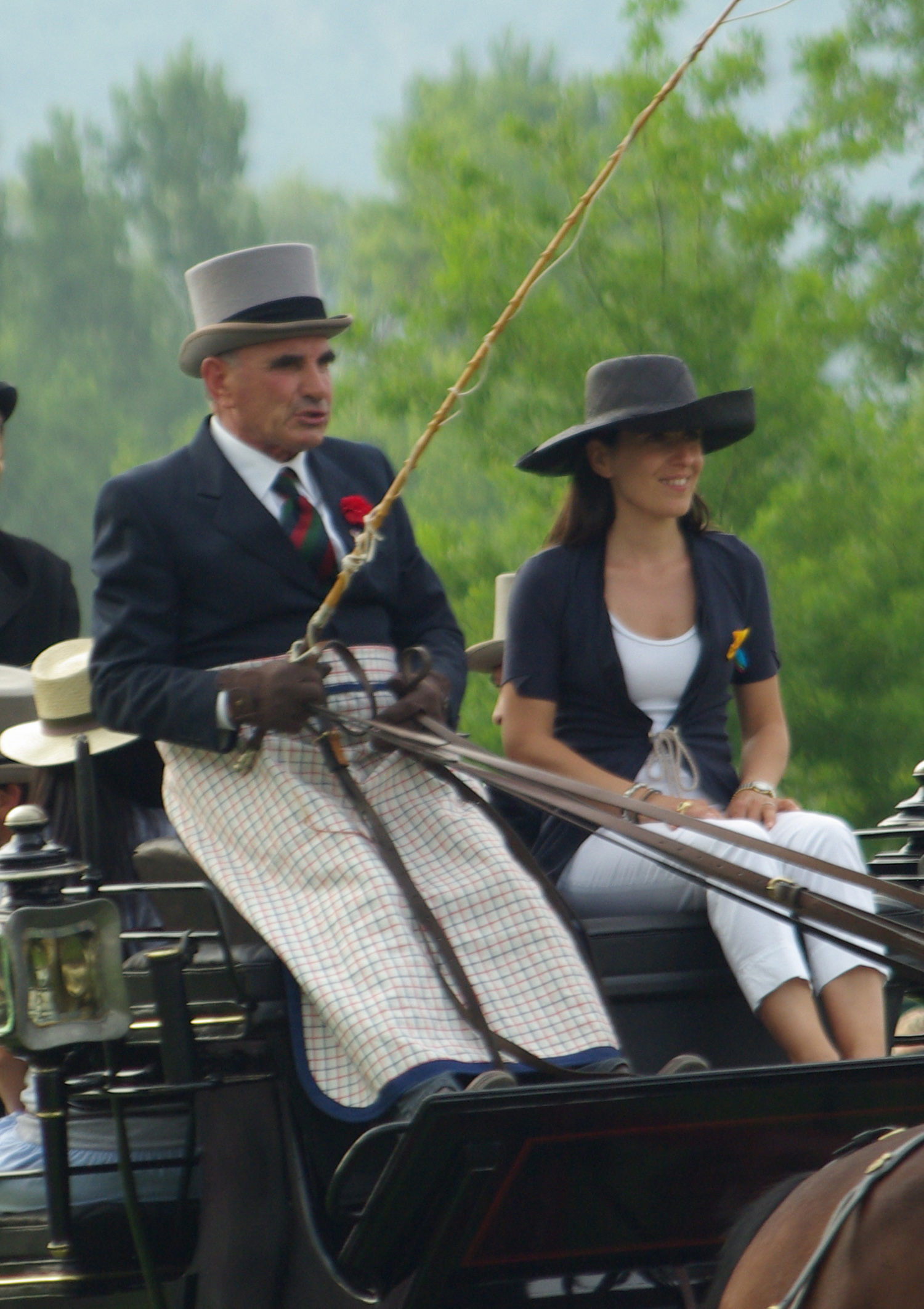 Carlo Mascheroni from Giussano